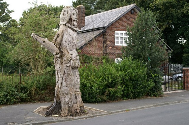 Childe of Hale Carved from a tree stump.